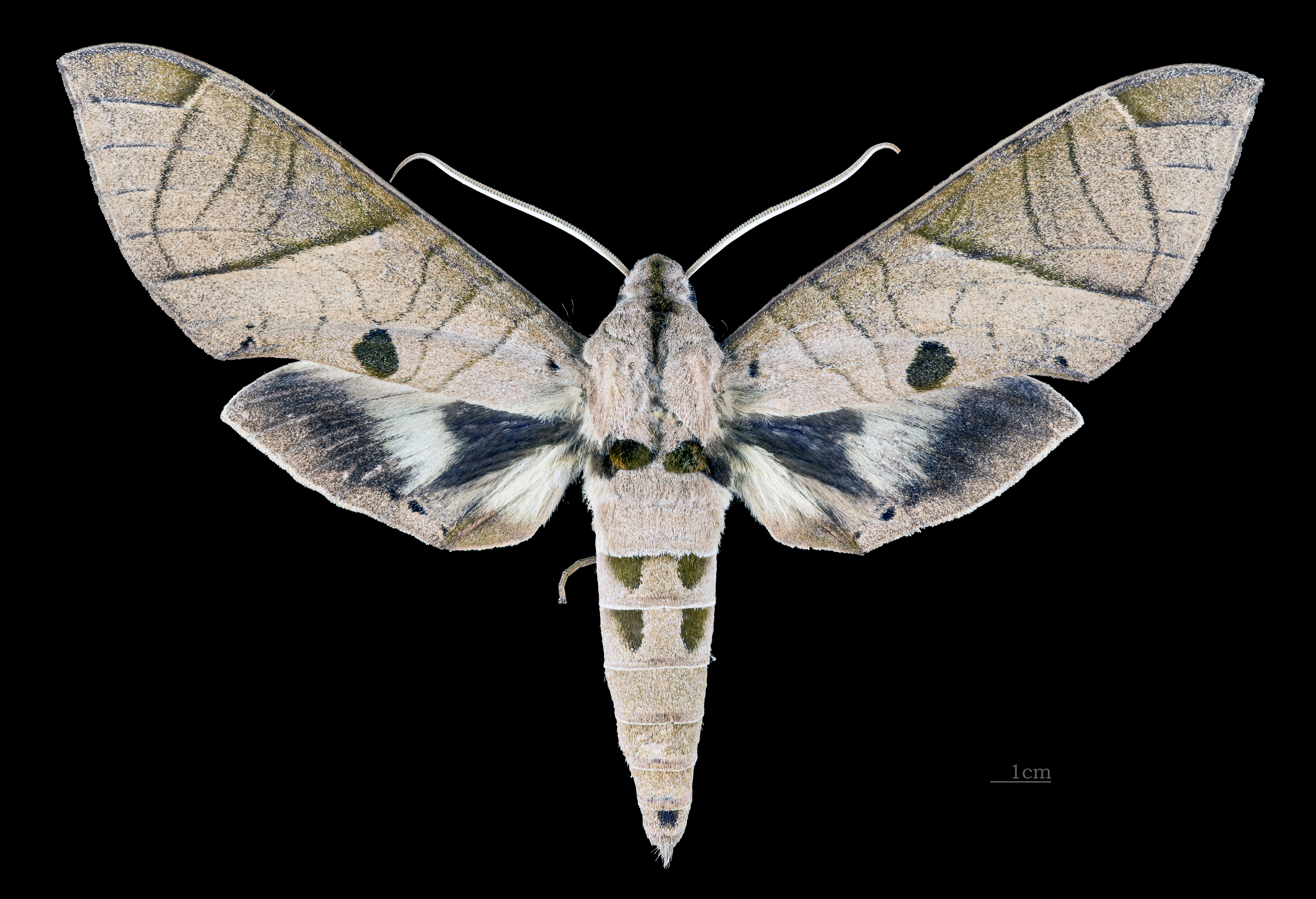 Eumorpha translineatus - Dorsal side Collection of the Mathematician Laurent Schwartz